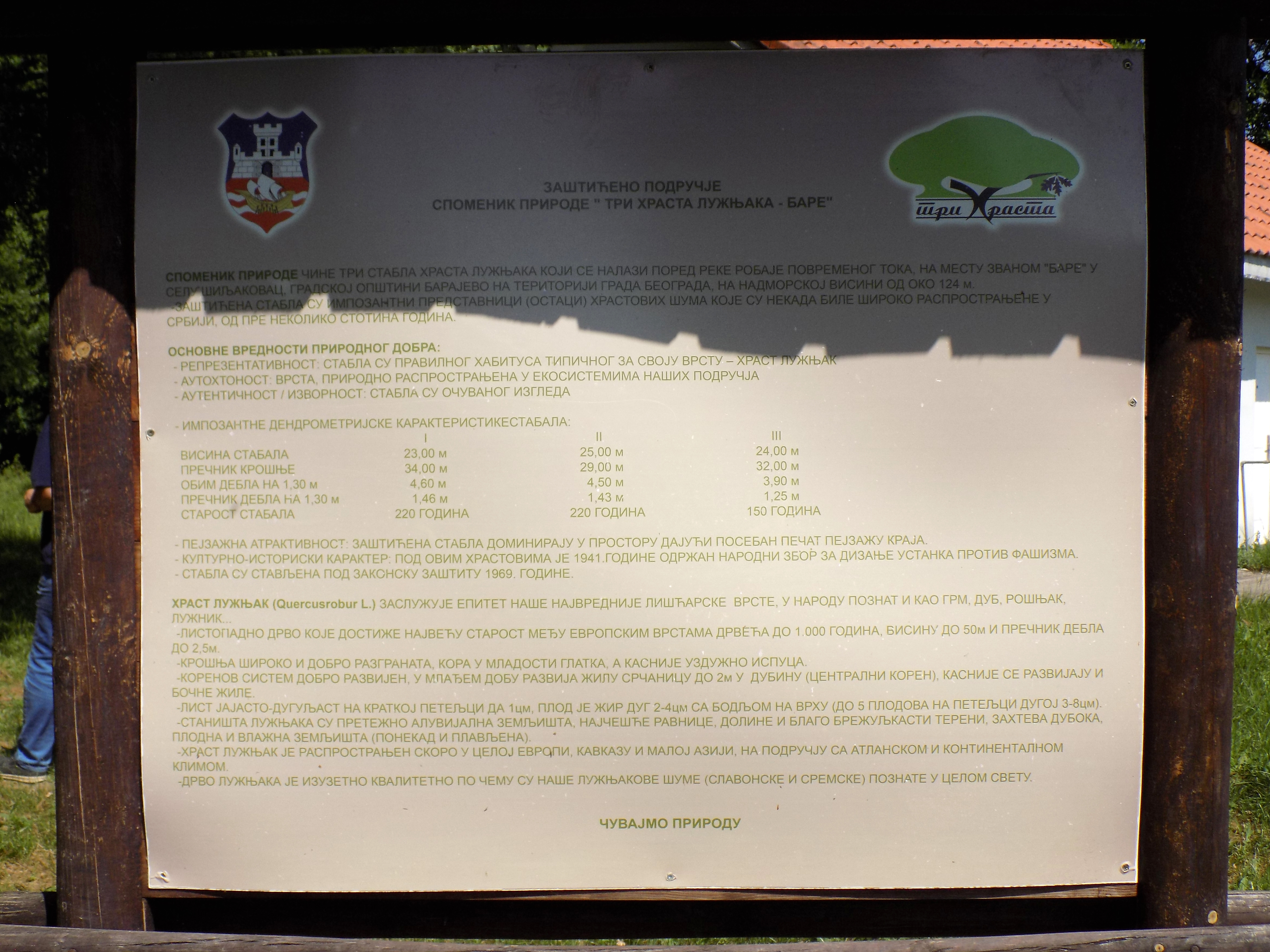 Monument of nature "Three trees of Common oaks - Bare" at a place called Bare in the village of Siljkovac (Barajevo, Municipality of Belgrade, Serbia) - info board